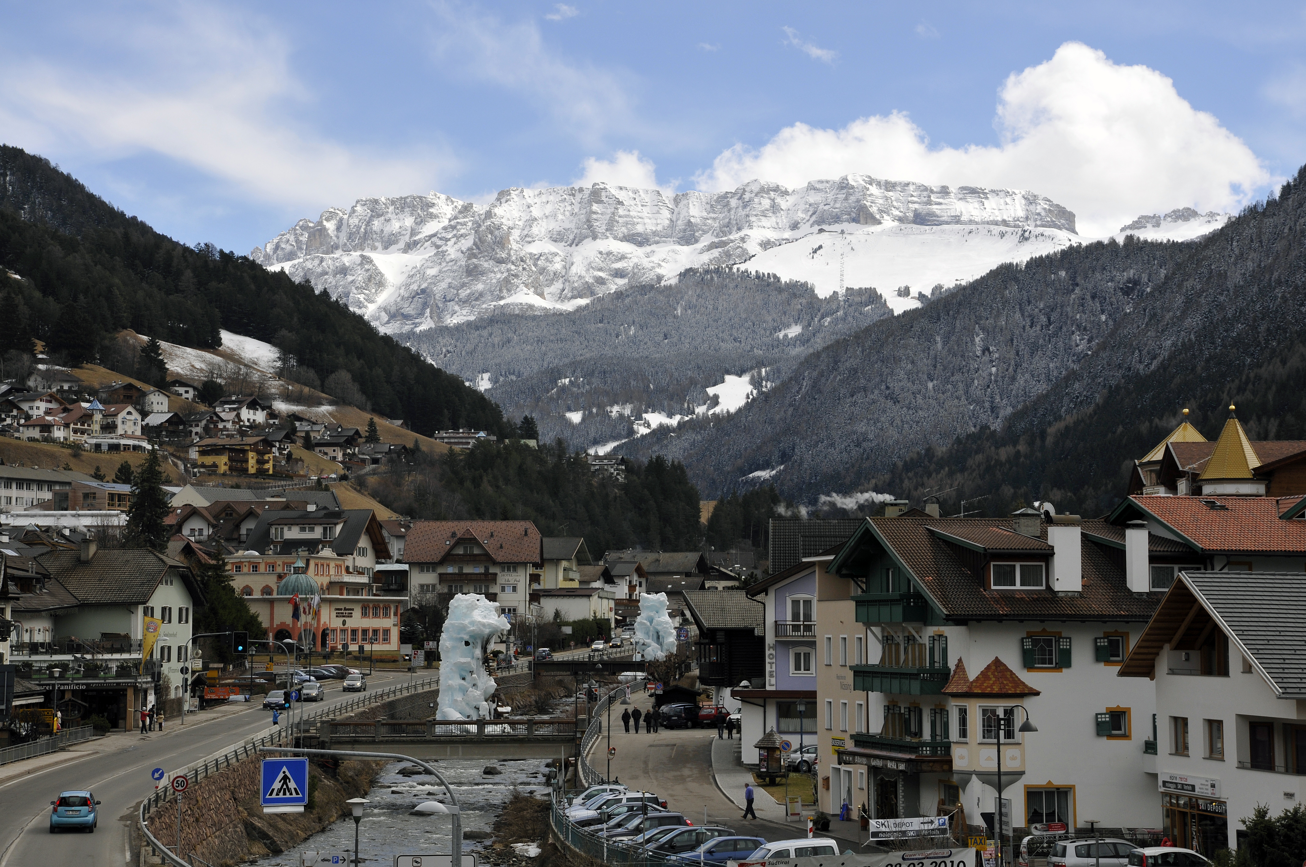 The Grödner Bach in Urtijëi - In the back the Sella group